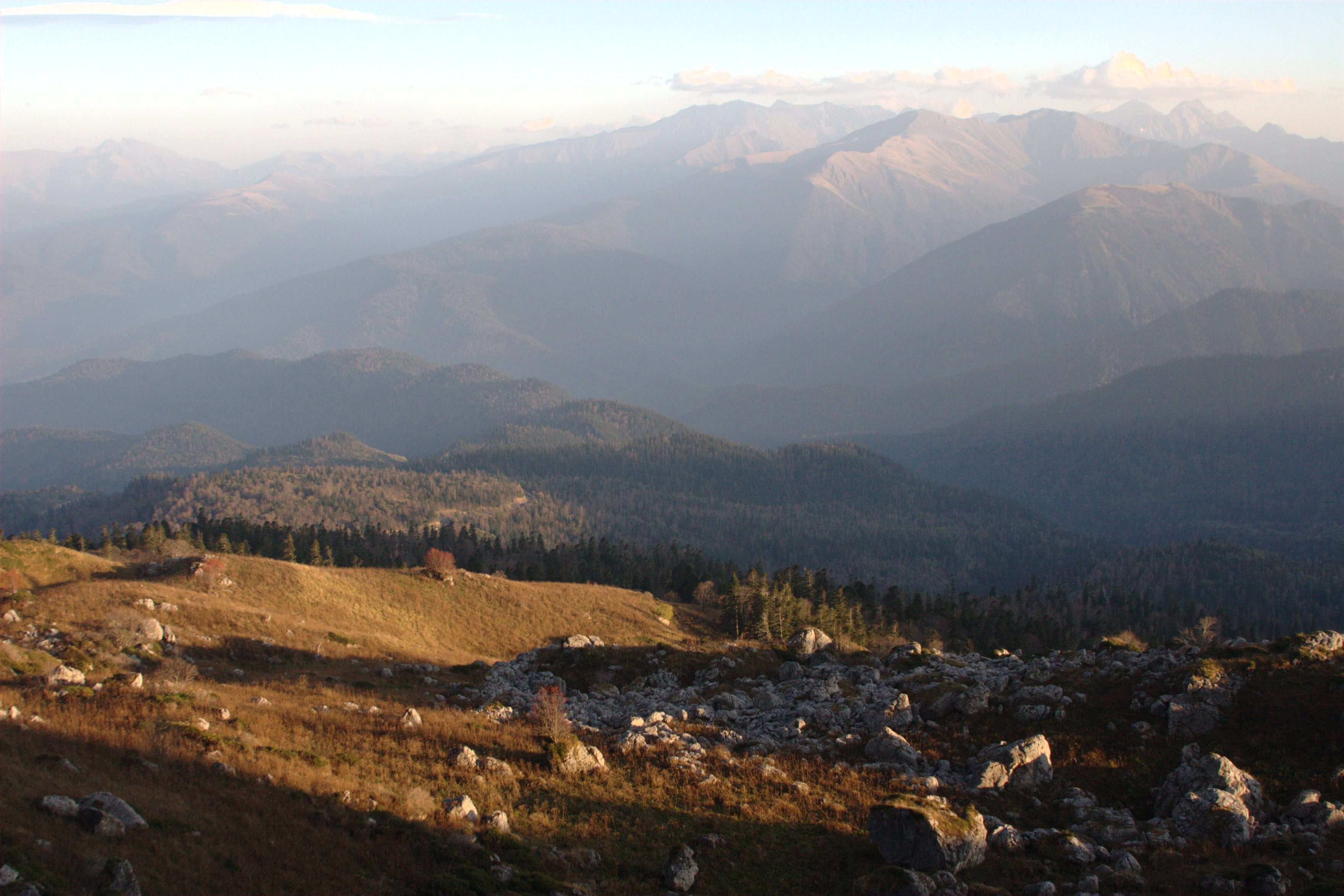 Stone Sea ridge in the Republic of Adygea, Russia